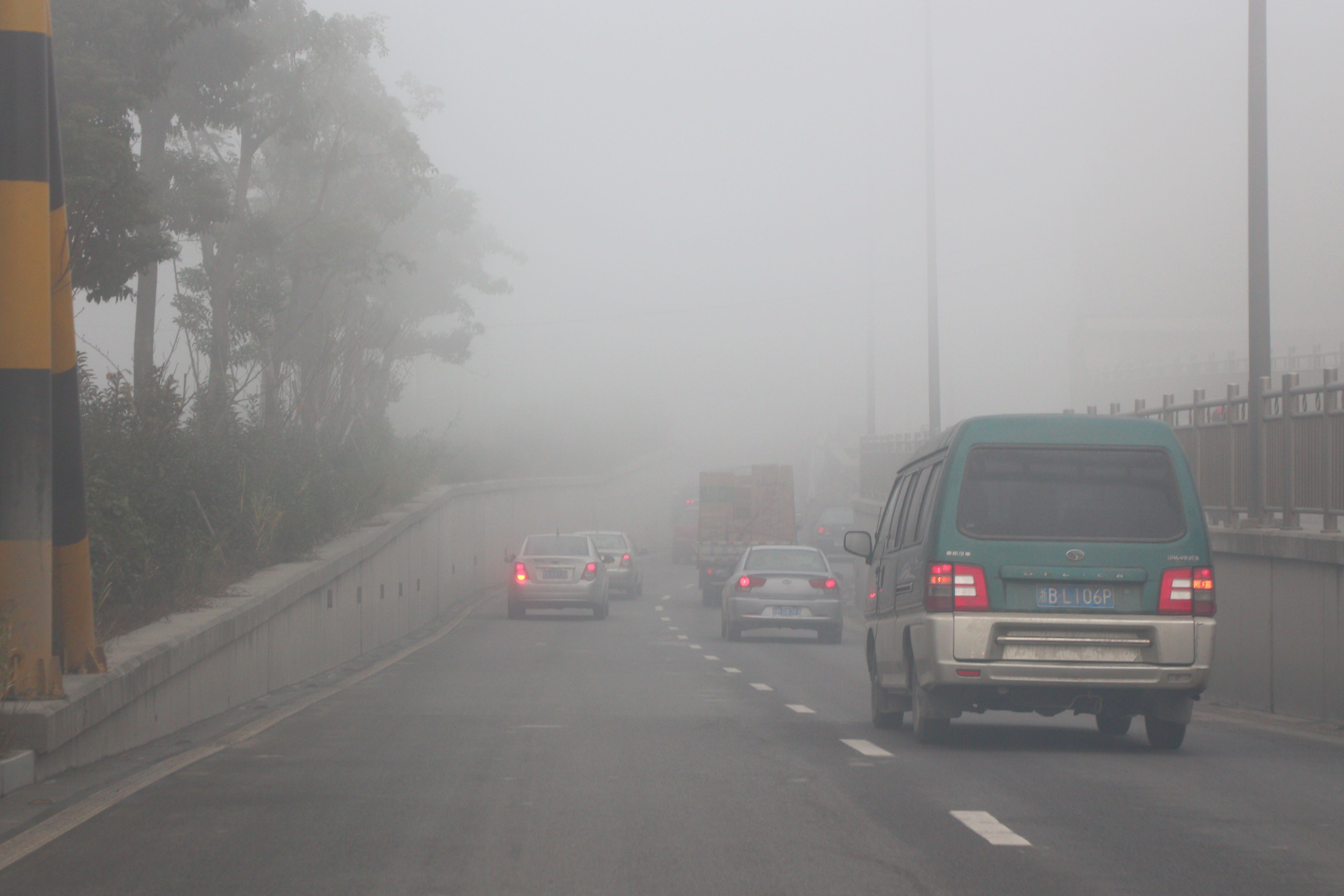 Air Contamination in Ningbo, 2013-12-07